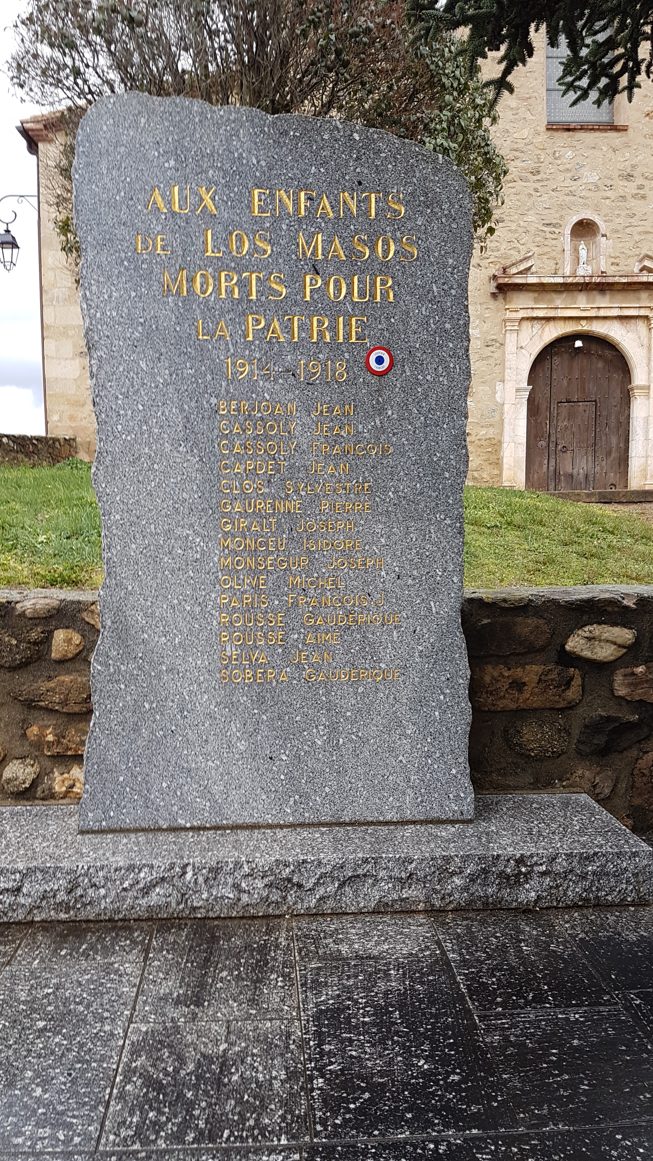 The war memorial in Los Masos